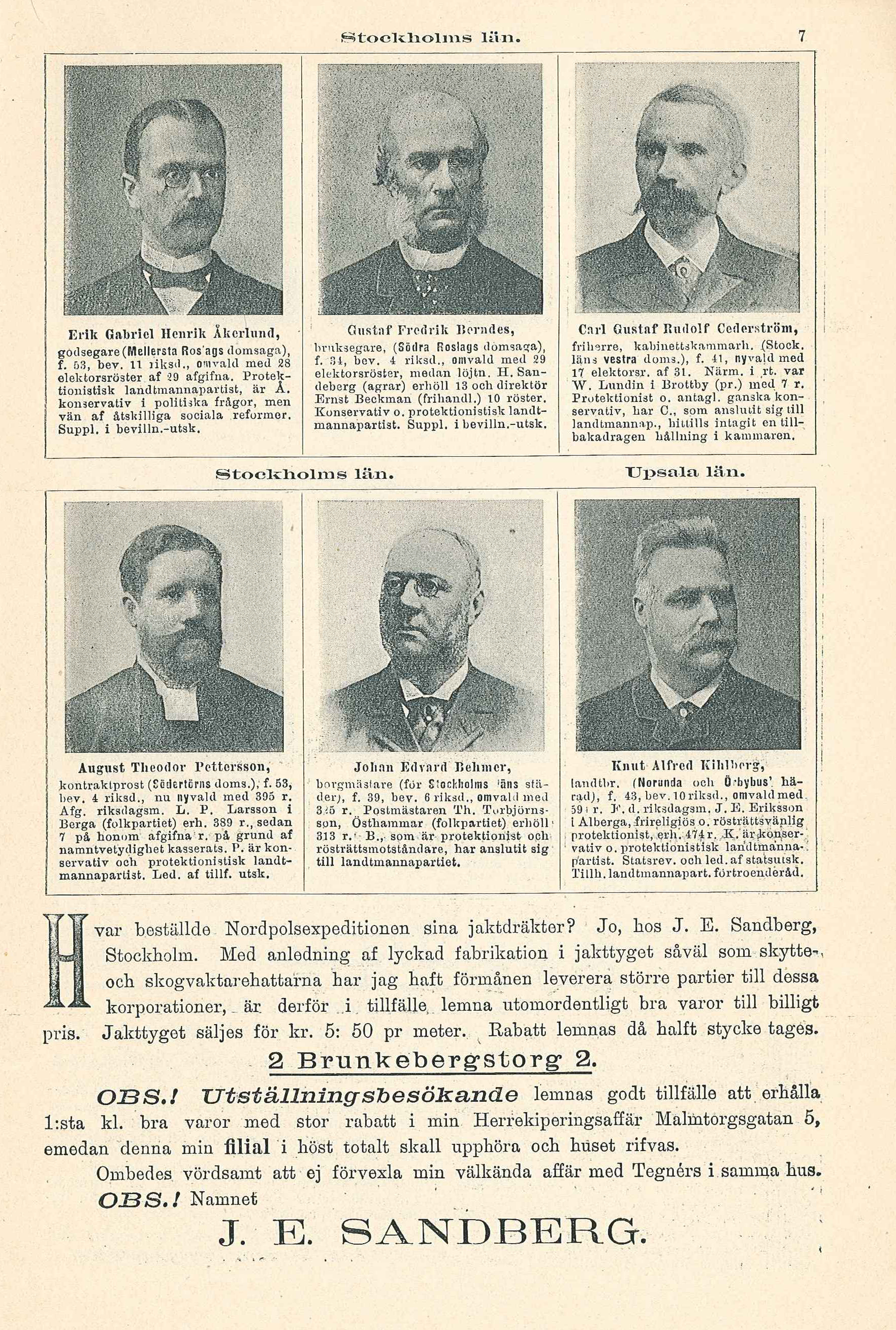 Page 7 of an album featuring portraits of all the members of the second chamber of the Swedish parliament (Sveriges riksdag) elected in 1897. This page featuring parts of the members representing the counties of Stockholm and Uppsala.